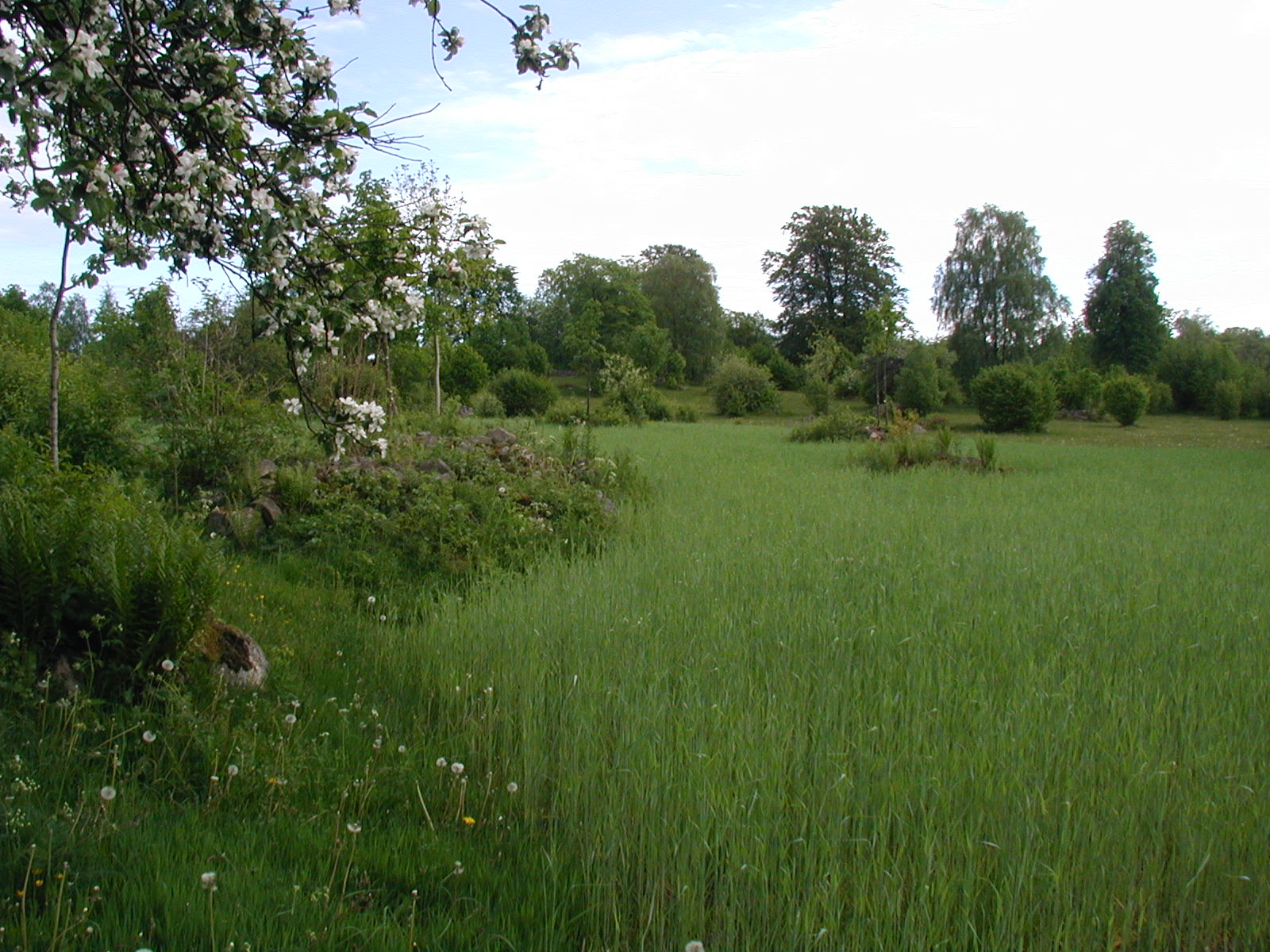 Vintage landscape: Rye field at Råshult, Småland, Sweden (The Linnean Museum).